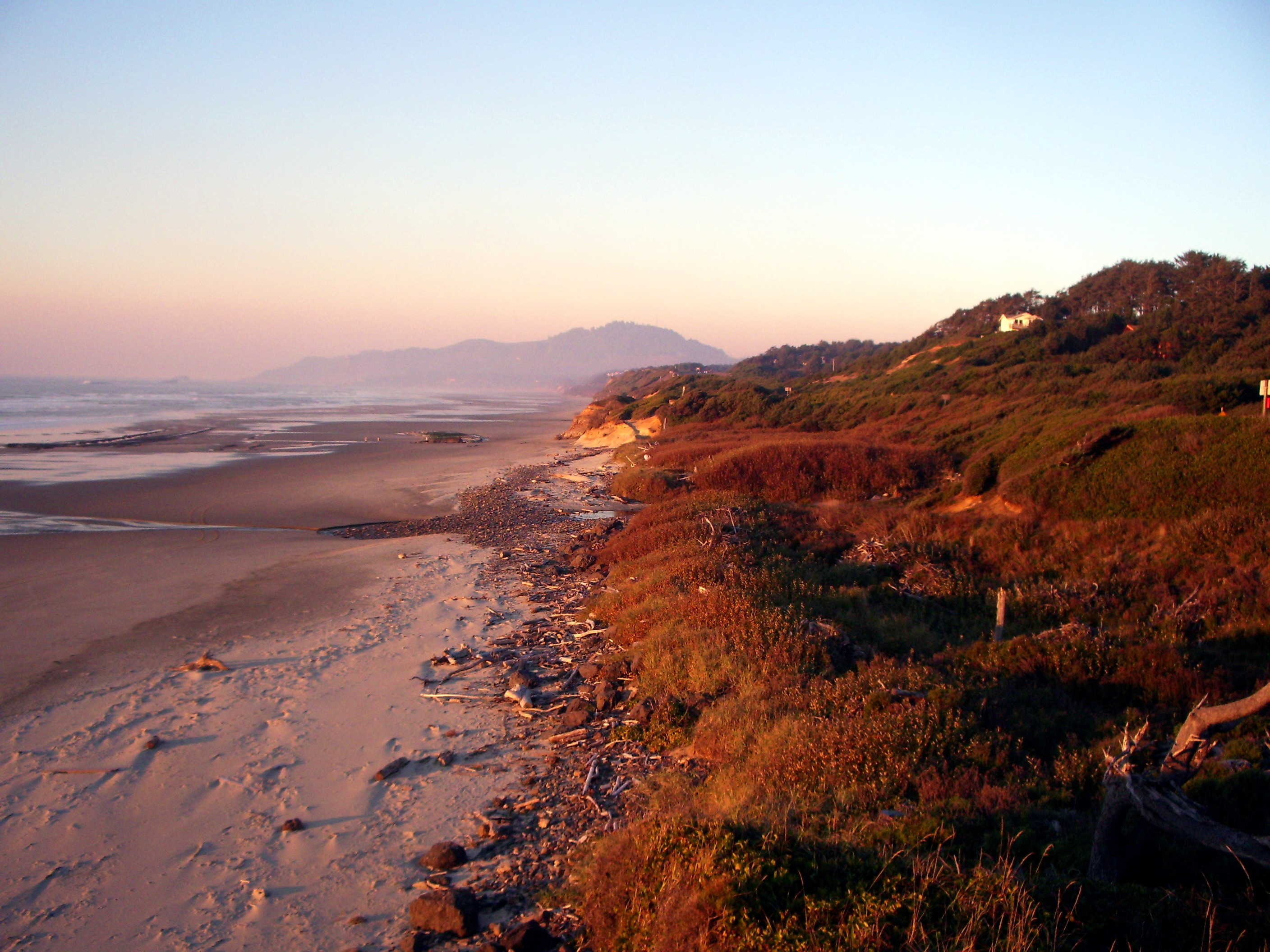 Moolack Beach sunset taken from the Moolack Shores motel looking northward